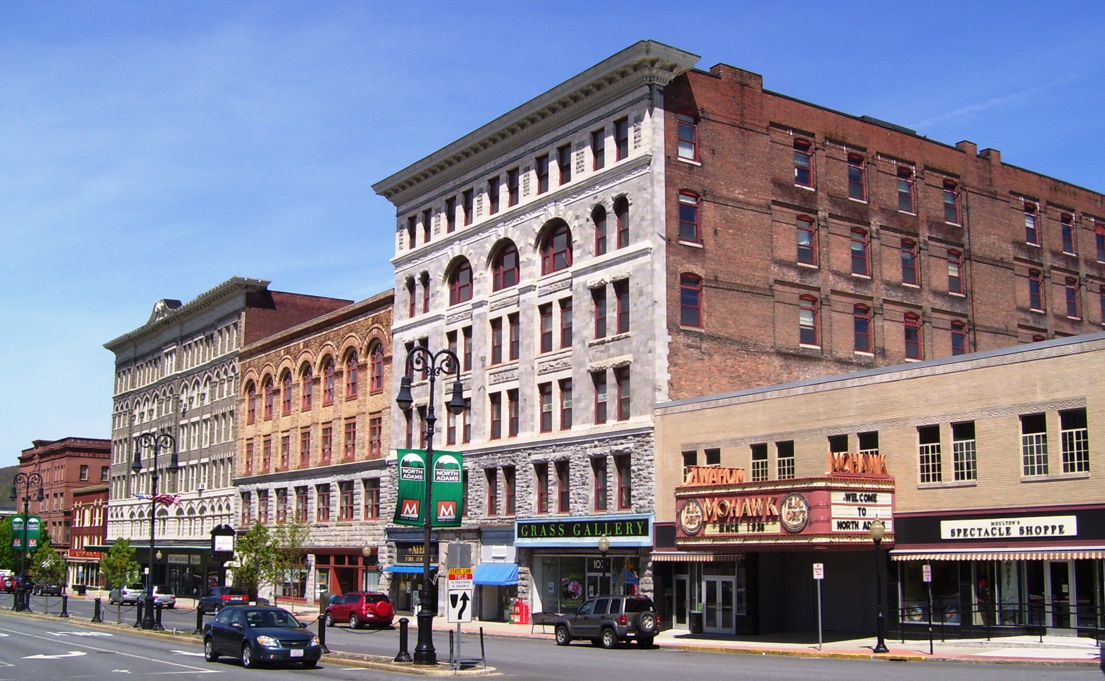 The north side of Main Street between Eagle and Holden Street in North Adams, Massachusetts, is located within the expanded boundaries of the Monument Square-Eagle Street Historic District.